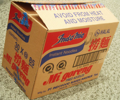 30-pack box of IndoMie Mi Goreng. Own photo; box procured from Asian grocery in Melbourne, Australia.